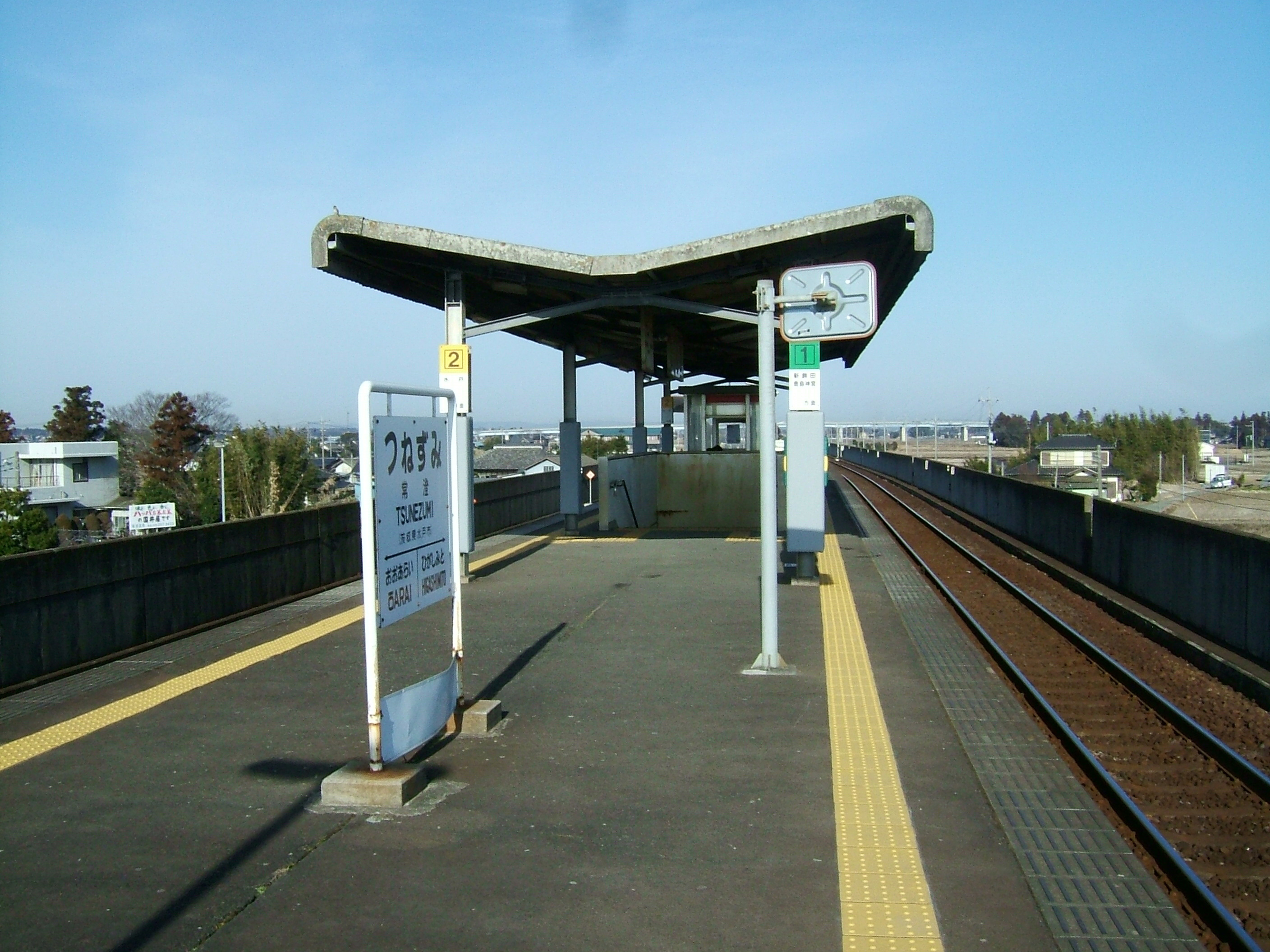 Tsunezumi Station platform (Kashima Seaside Railway Oarai-Kashima Line)